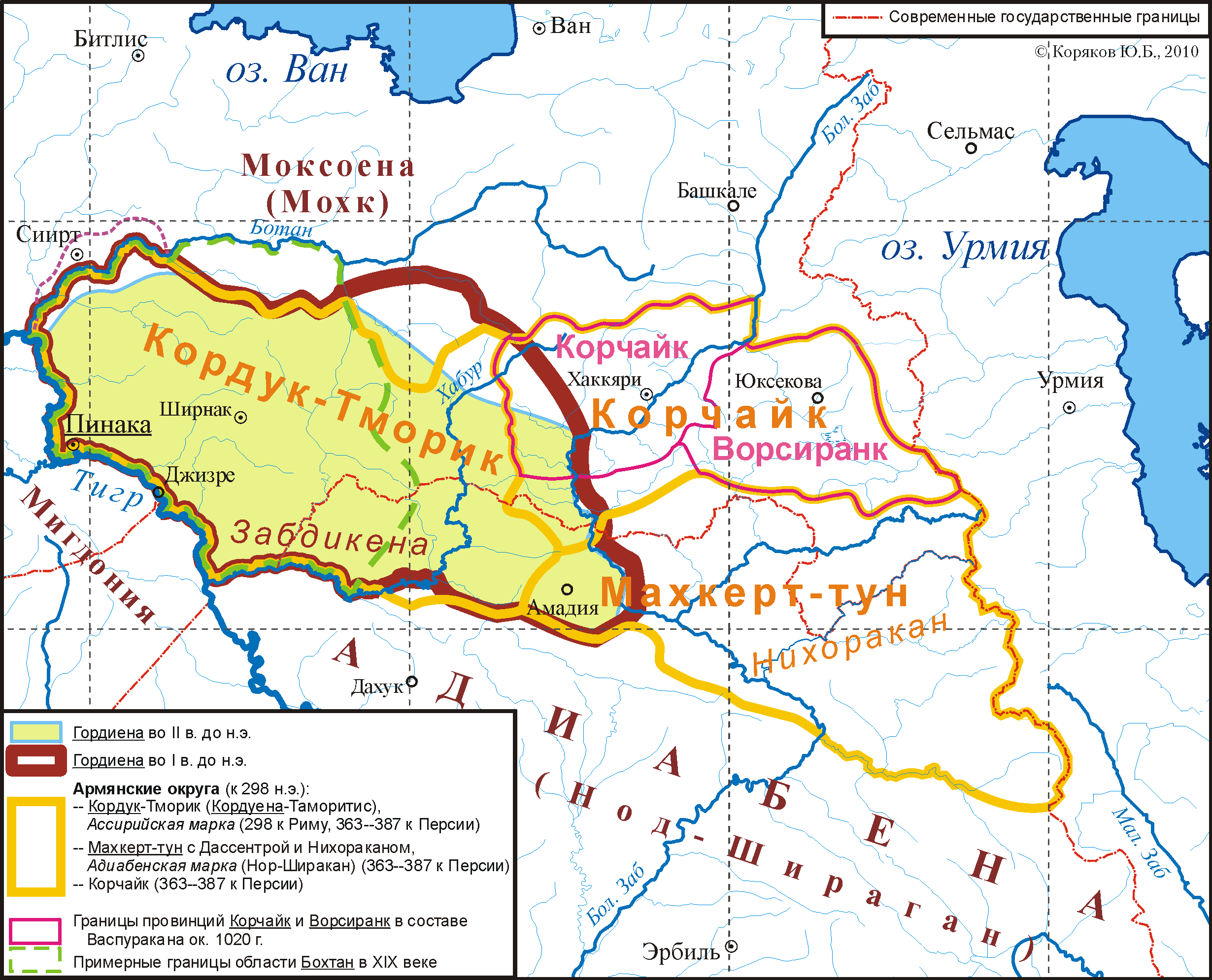 Comparative map of Gordiene / Cordouene / Kordowk / Korcheik / Bokhtan. Made on base of maps from Tübinger Atlas des Vorderen Orients (TAVO). In Russian